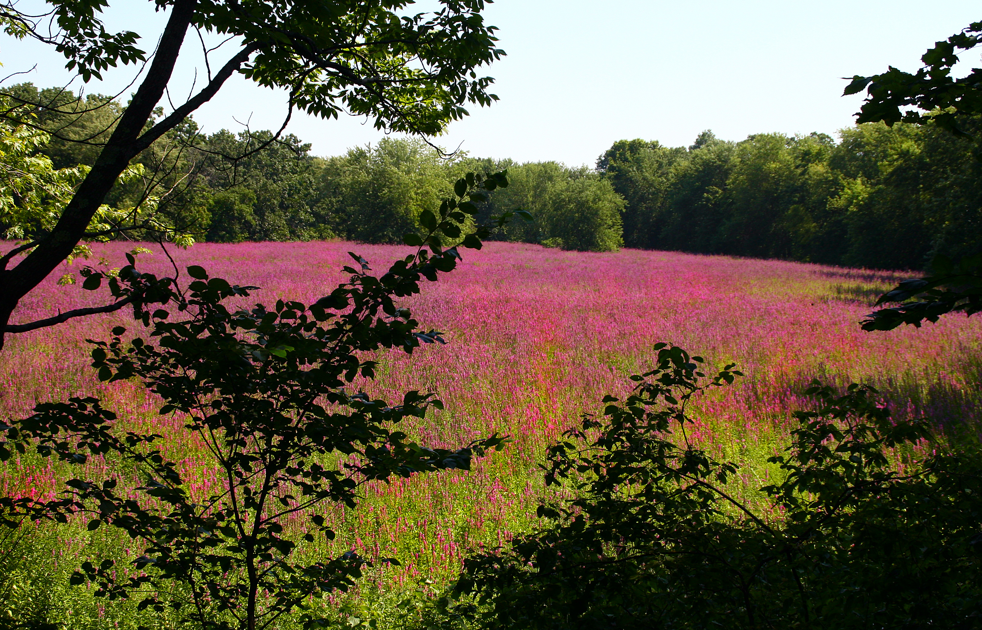 Flowering purple loosestrife (Lythrum salicaria), Concord, Massachusetts, USA. – Although loosestrife is considered an invasive species, it is a lovely one. Every year, I go on a hunt to see it bloom. I find odds and ends of it in many places. Off Nawhawtic Road in Concord, I discovered a large field full of loosestrife. Although the images is not a great one, I wanted to record the sight for future years.